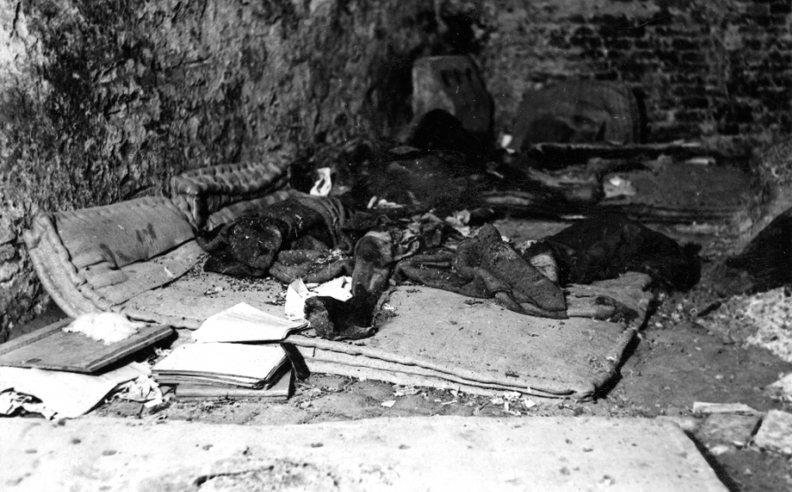 Remains of wounded Warsaw Uprising insurgents murdered by SS troops on 2 September 1944. Military hospital at Długa 7 street in Warsaw’s Old Town (Raczyński Palace).